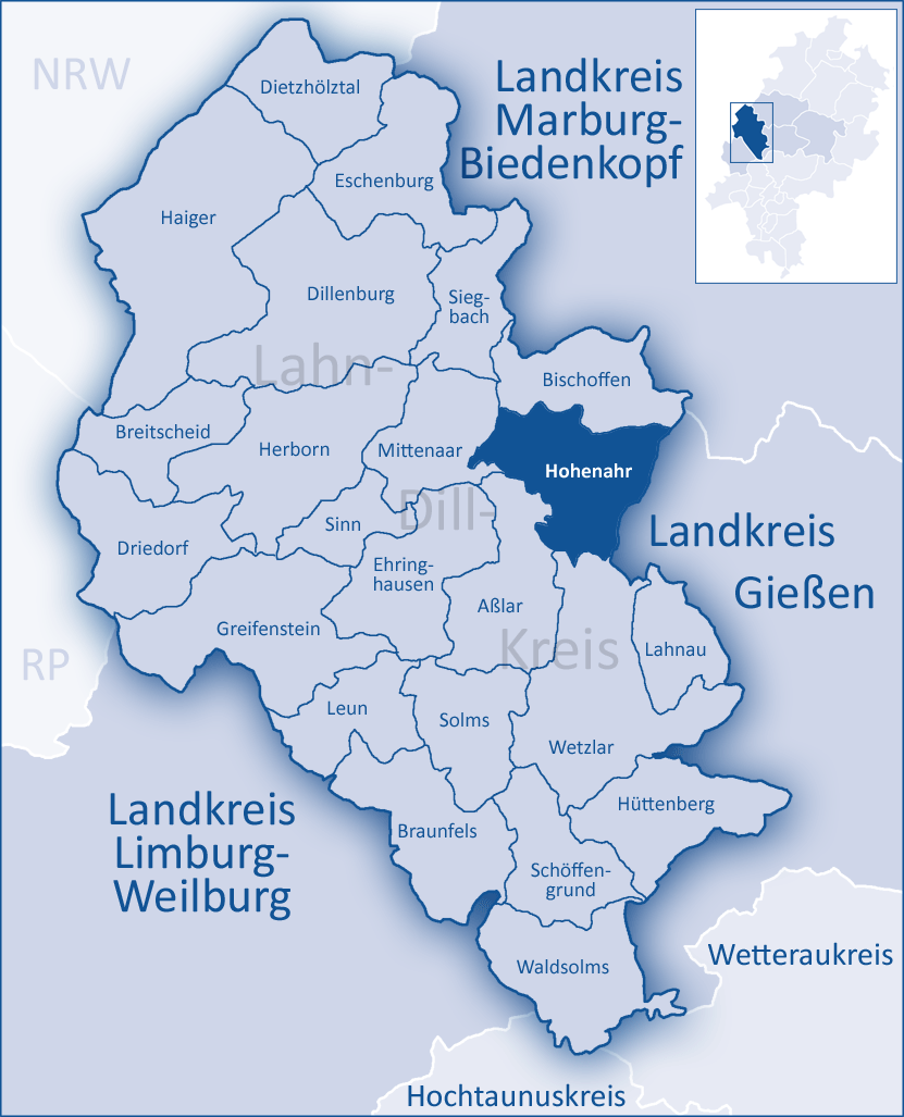 The map shows a district in the area of Lahn-Dill-Kreis